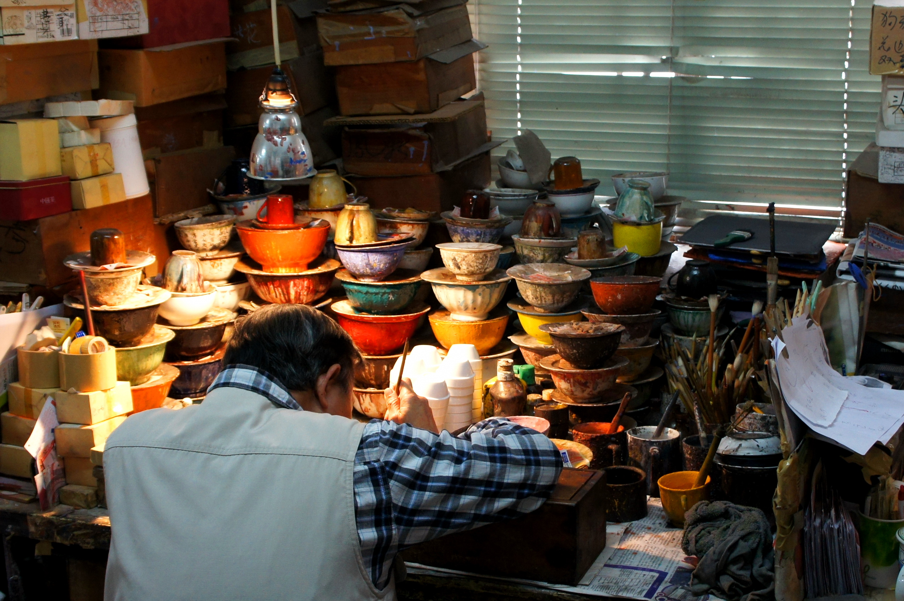 A craftsperson at work in Yuet Tung China Works, Kowloon Bay, Hong Kong.